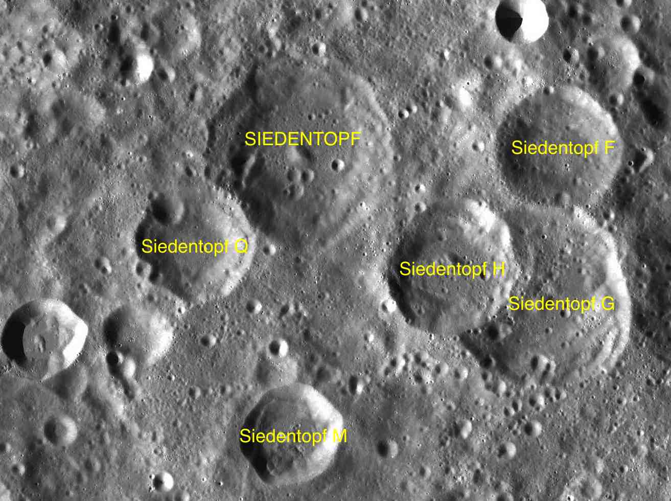 Part of the chart LAC-48 used for the presentation